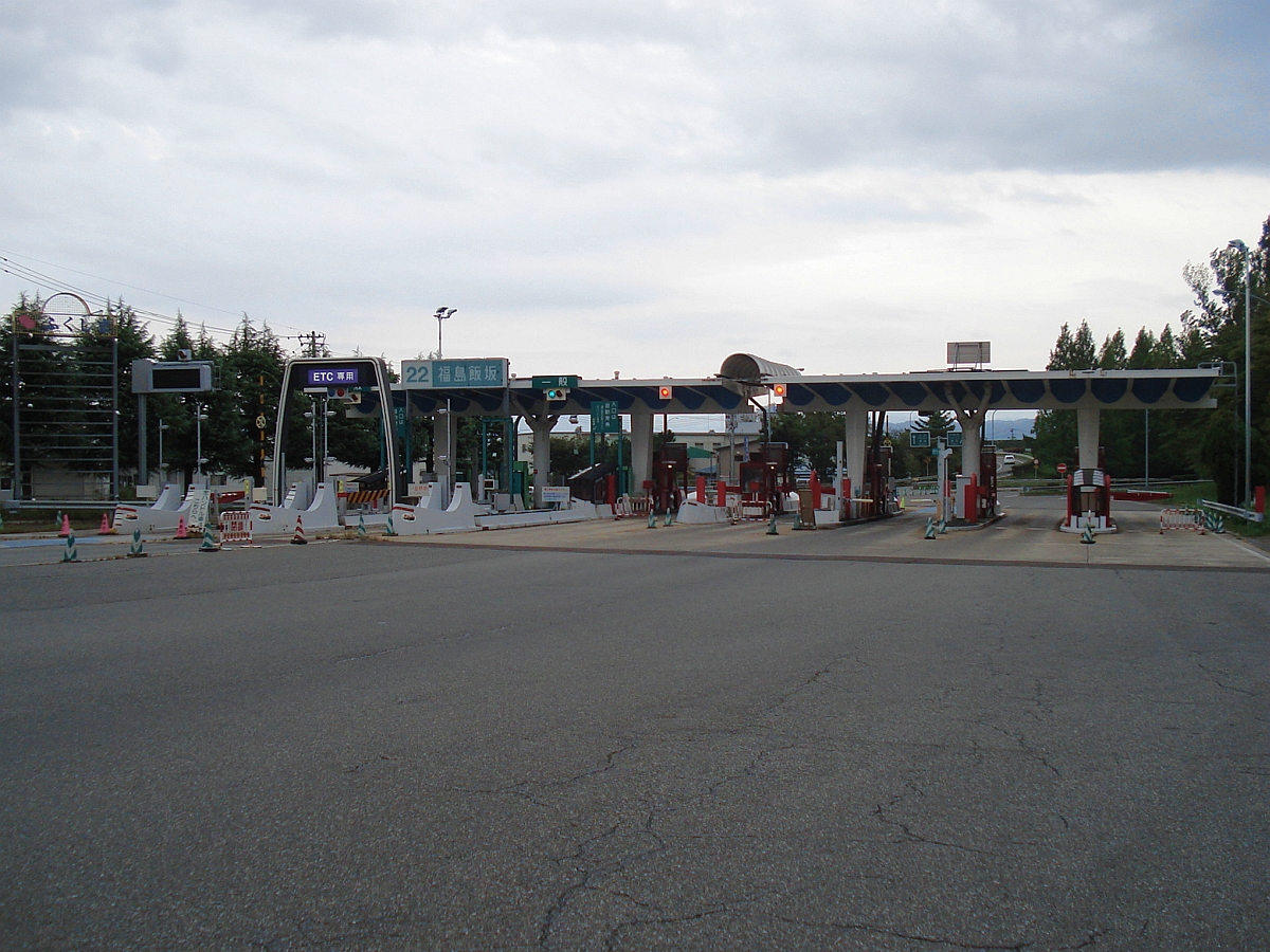 This Interchange, Fukushima-Iizaka Interchange, is on Tohoku Expressway, in Fukushima city, Fukushima Prefecture, Japan.